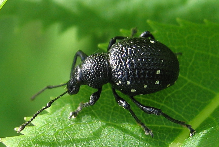 Otiorhynchus gemmatus, Near Ahornfeld, Bad Ischl, Austria